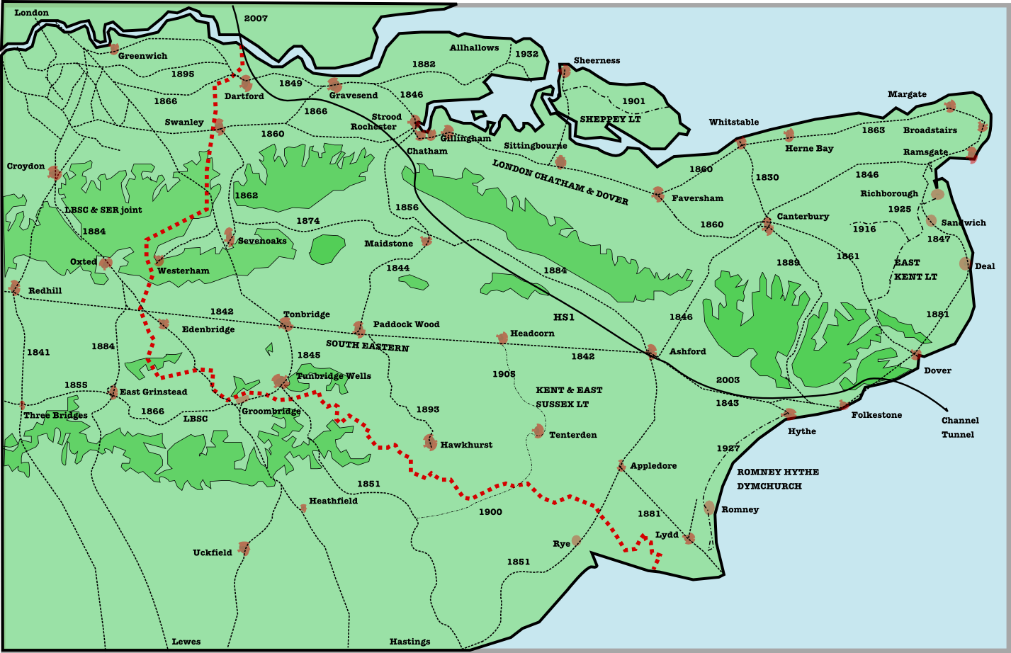 This is a minor modification by uploader (Old Moonraker) of original Image:Kent Railways.svg by User:ClemRutter. Small revisions only: the bulk of the work is by the original uploader. License as before.